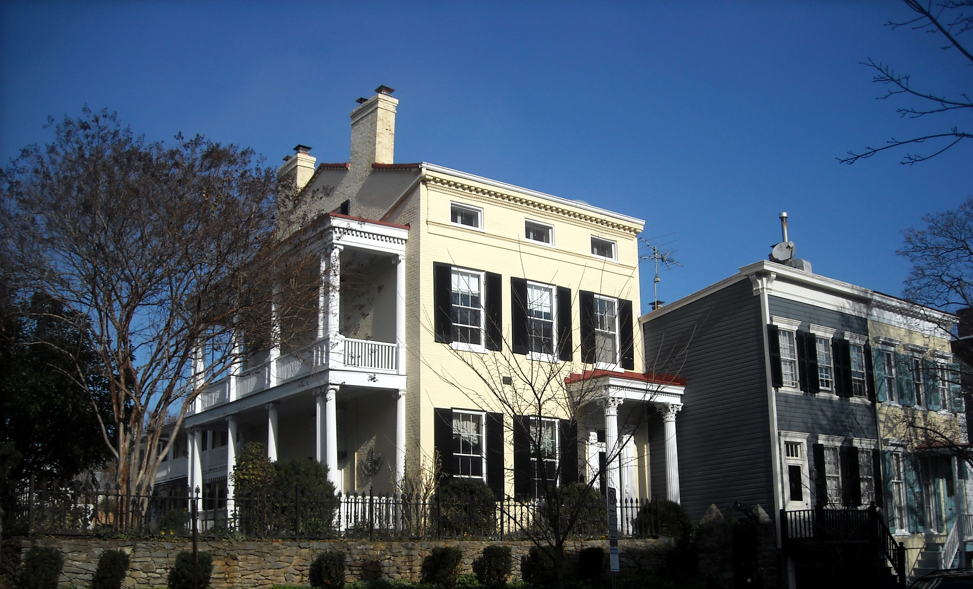 2823 N Street, N.W. (left), in the Georgetown neighborhood of Washington, D.C. Built in the 1850s, the Greek Revival home is a contributing property to the Georgetown Historic District, a National Historic Landmark. Past occupants of 2823 N Street, N.W., include Rear Admiral Aaron Ward Weaver, attorney Adrian S. Fisher, and journalist John Pierson.